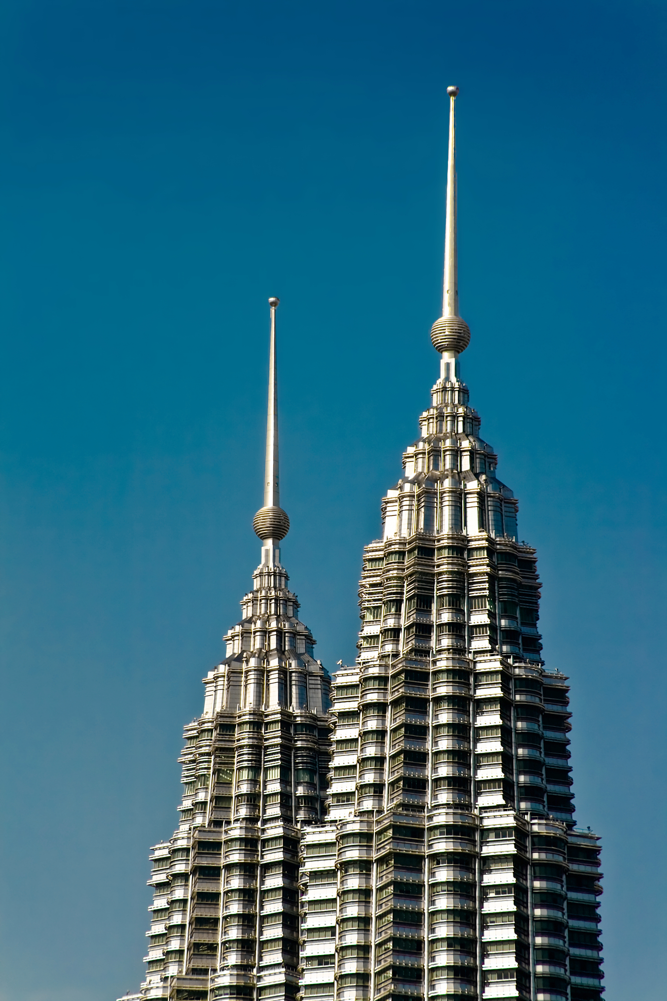 The head of the Petronas Towers in KL